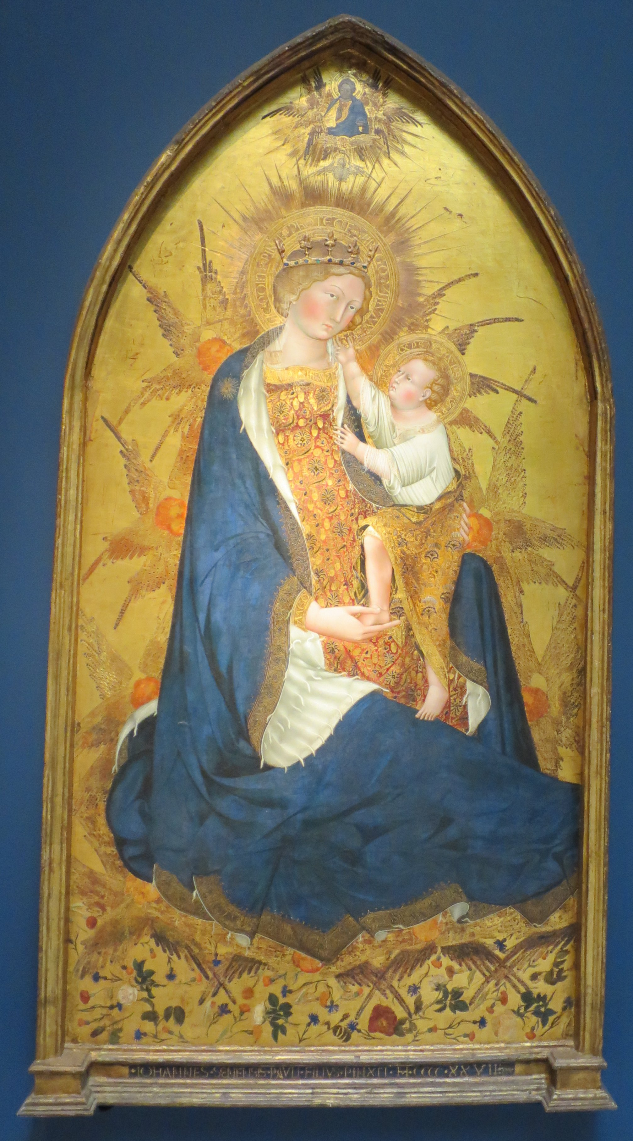 Branchini Madonna by Giovanni di Paolo, 1427, tempera and gold leaf on panel, Norton Simon Museum